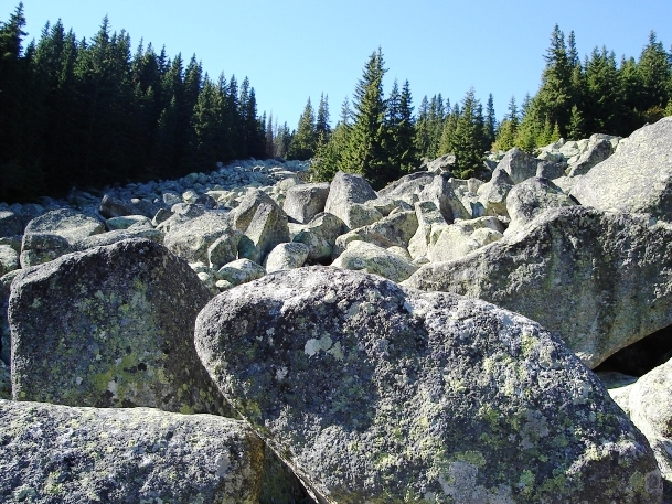 Stone river on Vitosha Mountain, Bulgaria. Photograph by Nikolay Rainov published in under Creative Commons license 2.5.